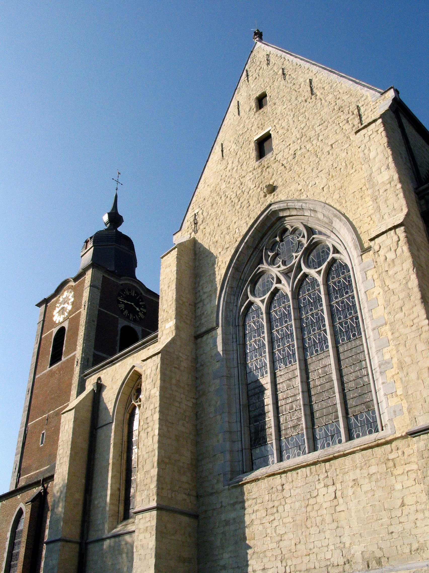 Braine-l'Alleud (Belgium), the St. Stephen church (XVI - XIXth centuries).